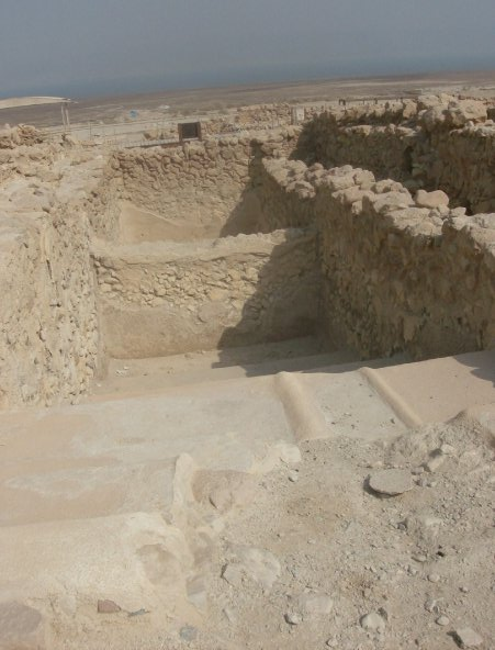 Mikva at Khirbet Qumran